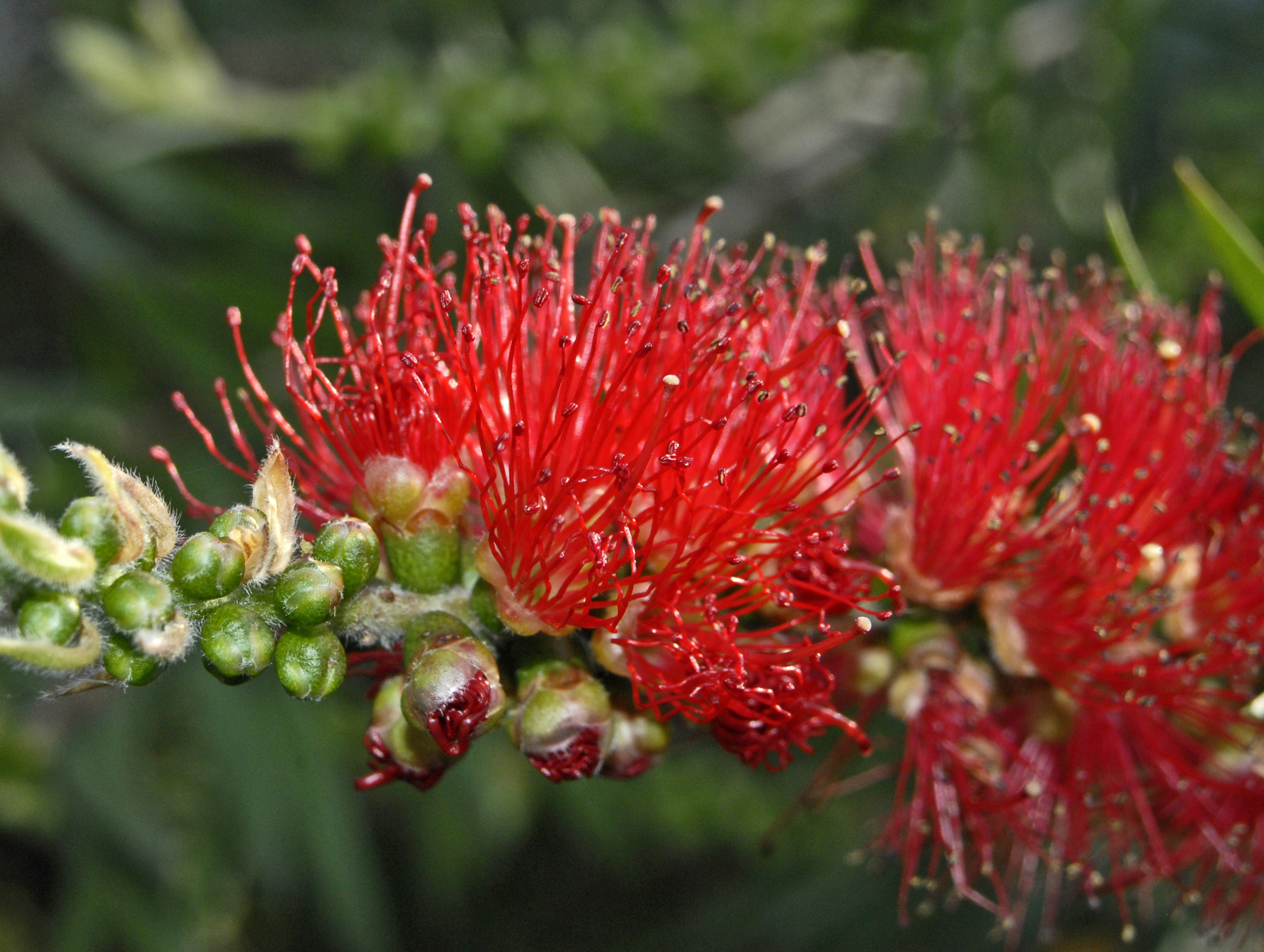 Flowers of Callistemon linearis at Villa Durazzo.Pallavicini, Genova Pegli